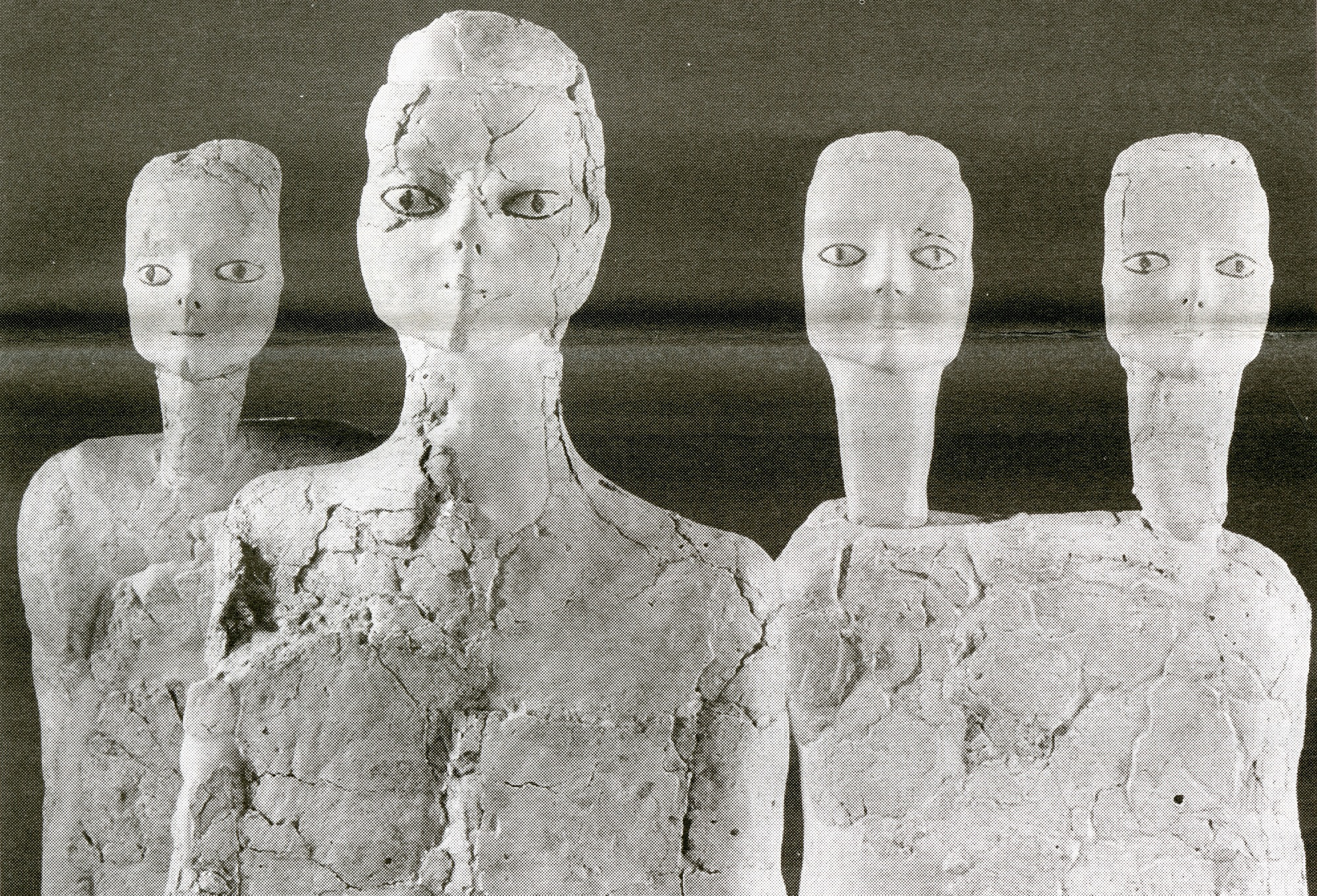 The oldest sculptures ever found in the Near East on display at the Arthur M. Sackler Gallery in the exhibition "Preserving Ancient Sculptures from Jordan." The exhibition includes two humanlike figures and three double-headed busts from 6500 B.C., and three faces modeled on human skulls from 7000 B.C. The sculptures are nearly life-size and are made of lime plaster. The sculptures were found in 1974 near Amman, Jordan, and were transported to Washington, D.C. in 1985 where they were analyzed and reconstructed.